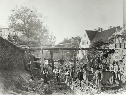 Fæstningenskanalen in Lyngby under construction